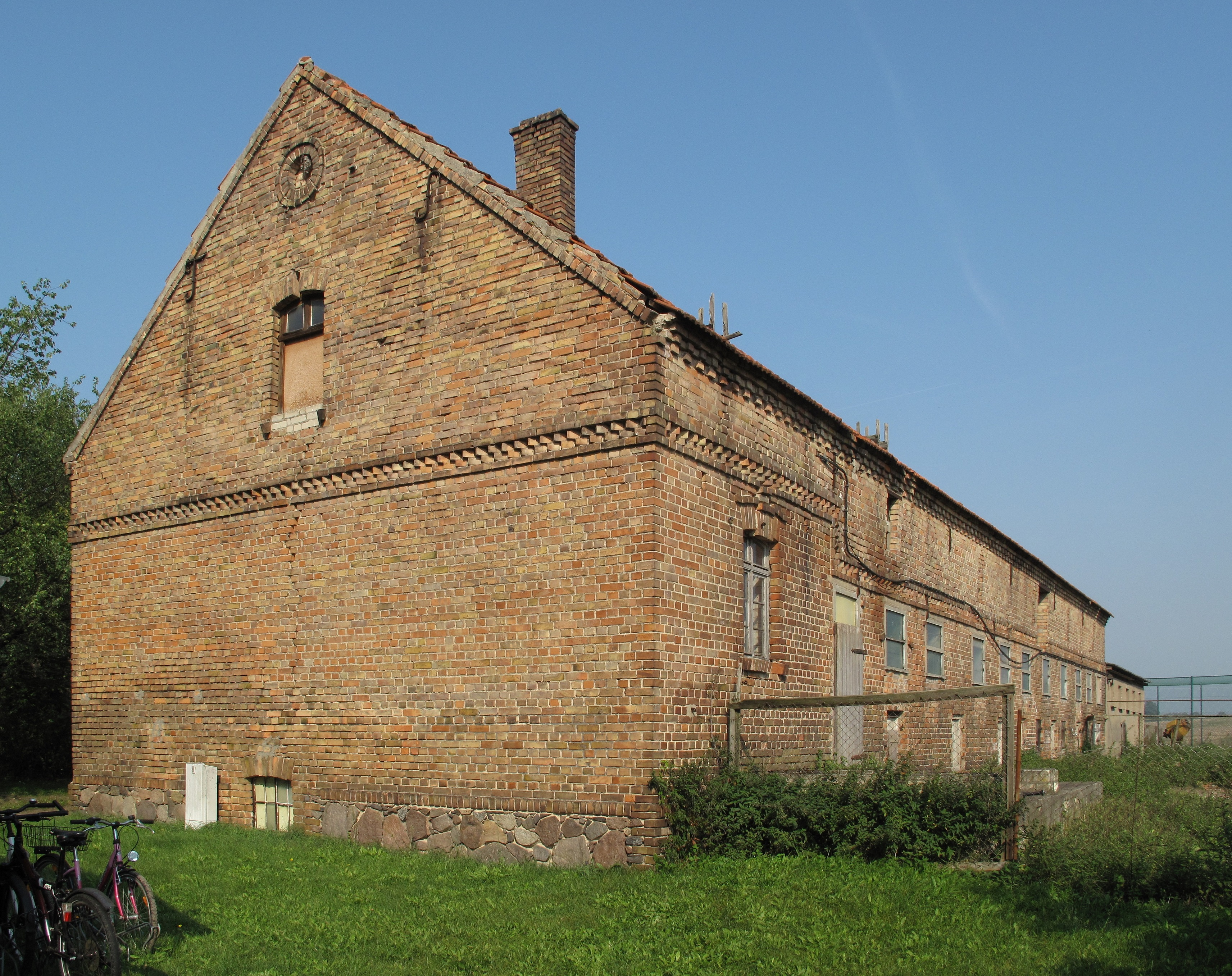 Farmhouse in Briescht, a part of the municipality Tauche in the District Oder-Spree, Brandenburg, Germany.